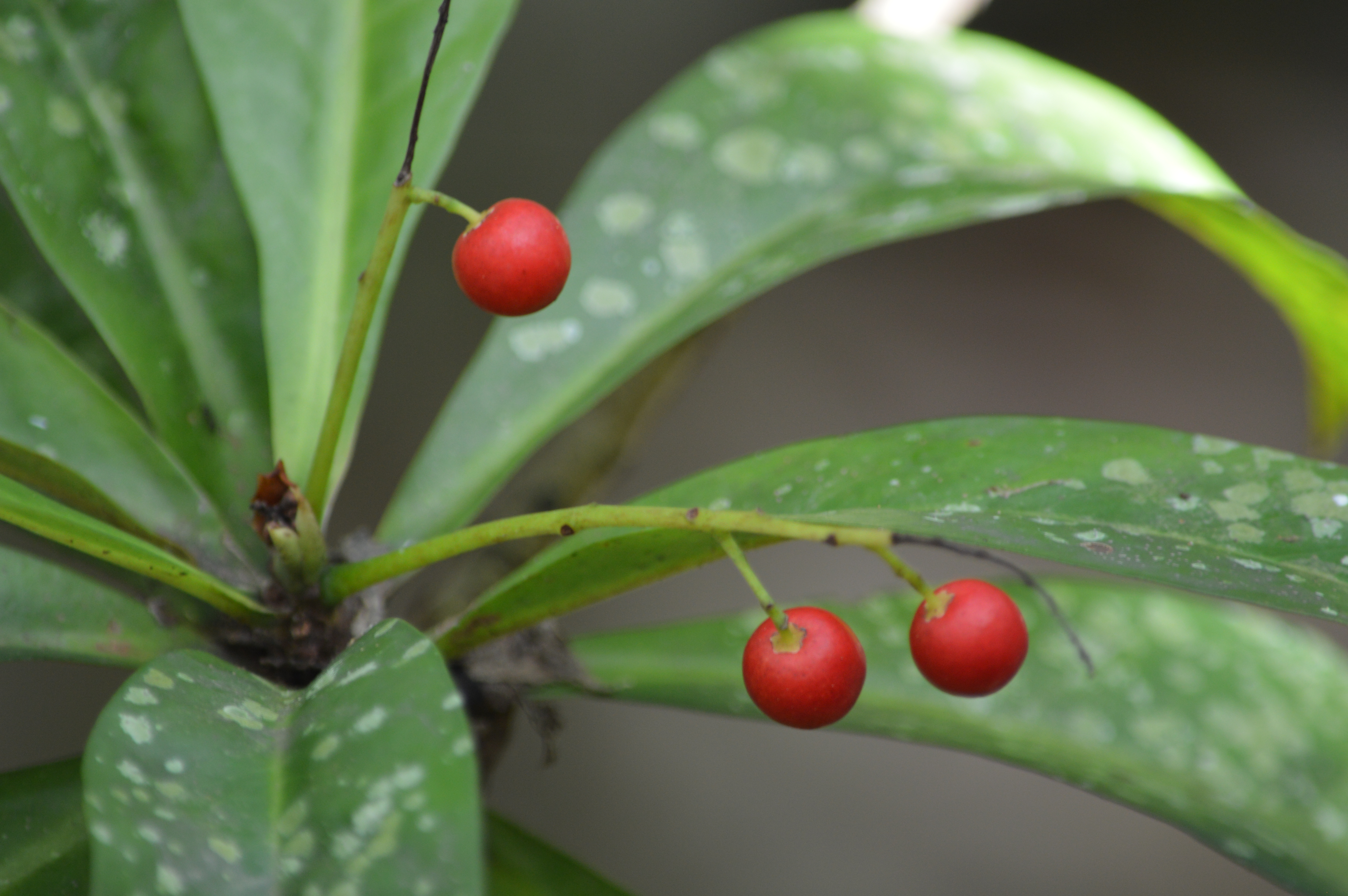 Discocalyx megacarpa fruits and leaves.